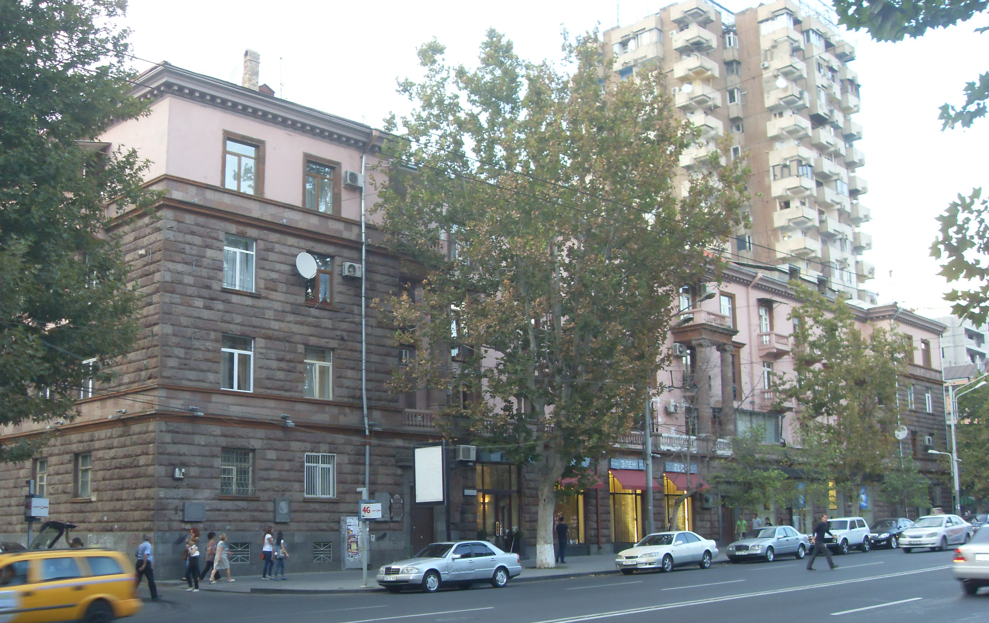 Mashtots ave 9, Yerevan 6/39